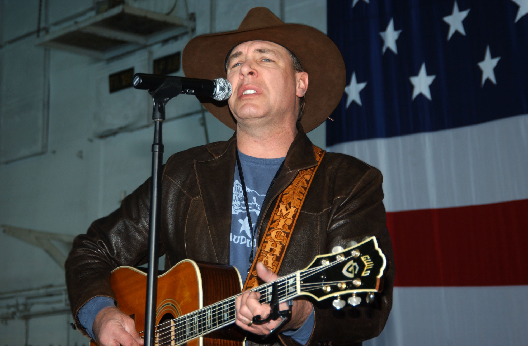 Persian Gulf (Dec. 29, 2005) – Country Music Singer Michael Peterson performs for crew members aboard the Nimitz-class aircraft carrier USS Theodore Roosevelt (CVN 71) as part of a tour courtesy of the United Service Organization (USO). Roosevelt and embarked Carrier Air Wing Eight (CVW-8) are currently underway on a regularly scheduled deployment supporting maritime security operations.